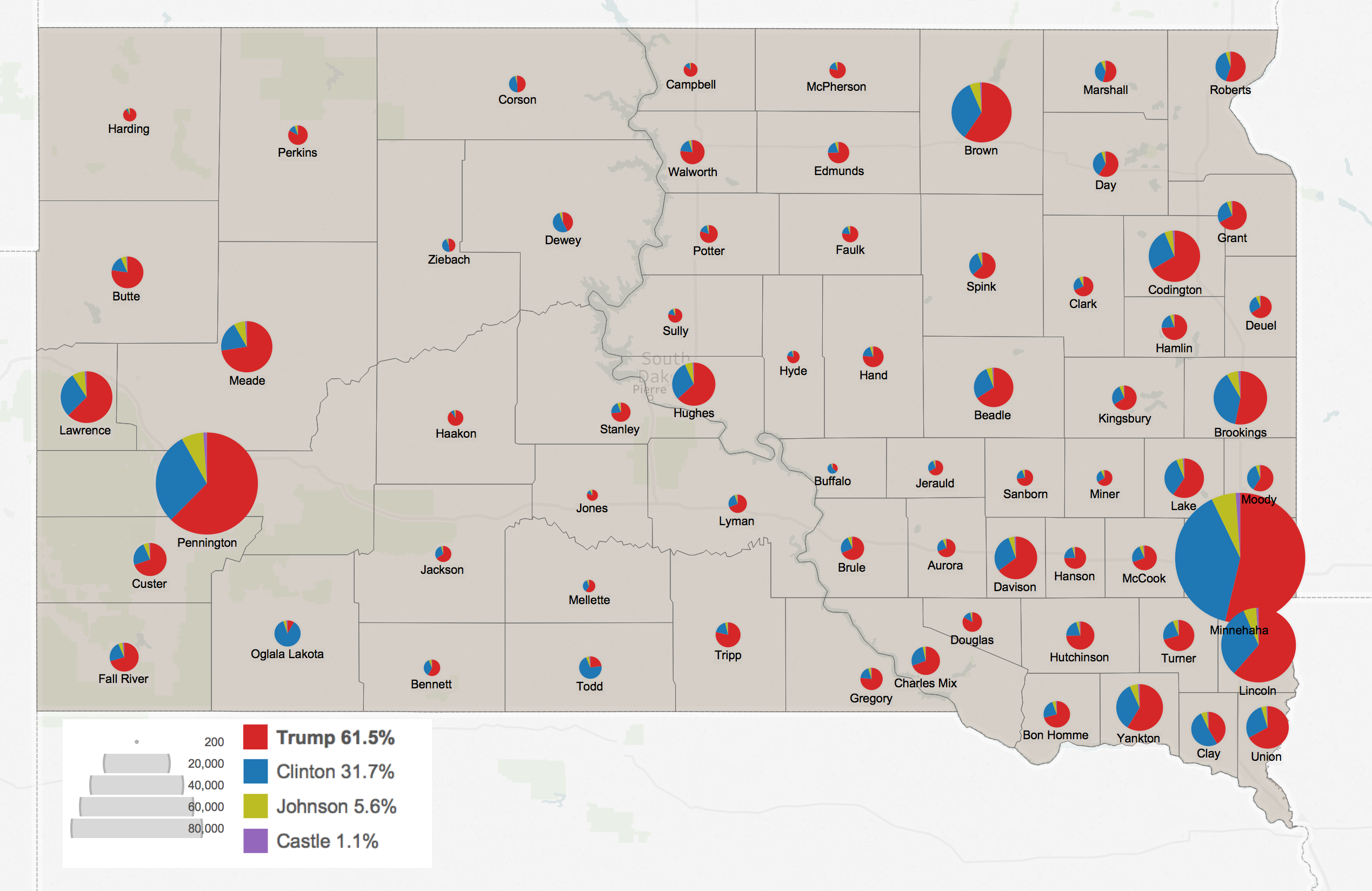 United States presidential election in South DakotaUnited States presidential election in South Dakota, 2016 results by county showing number of votes by size and candidate by color. Source: Unofficial Results General Election - November 8, 2016 South Dakota Secretary of State. Last Updated: 11/9/2016.